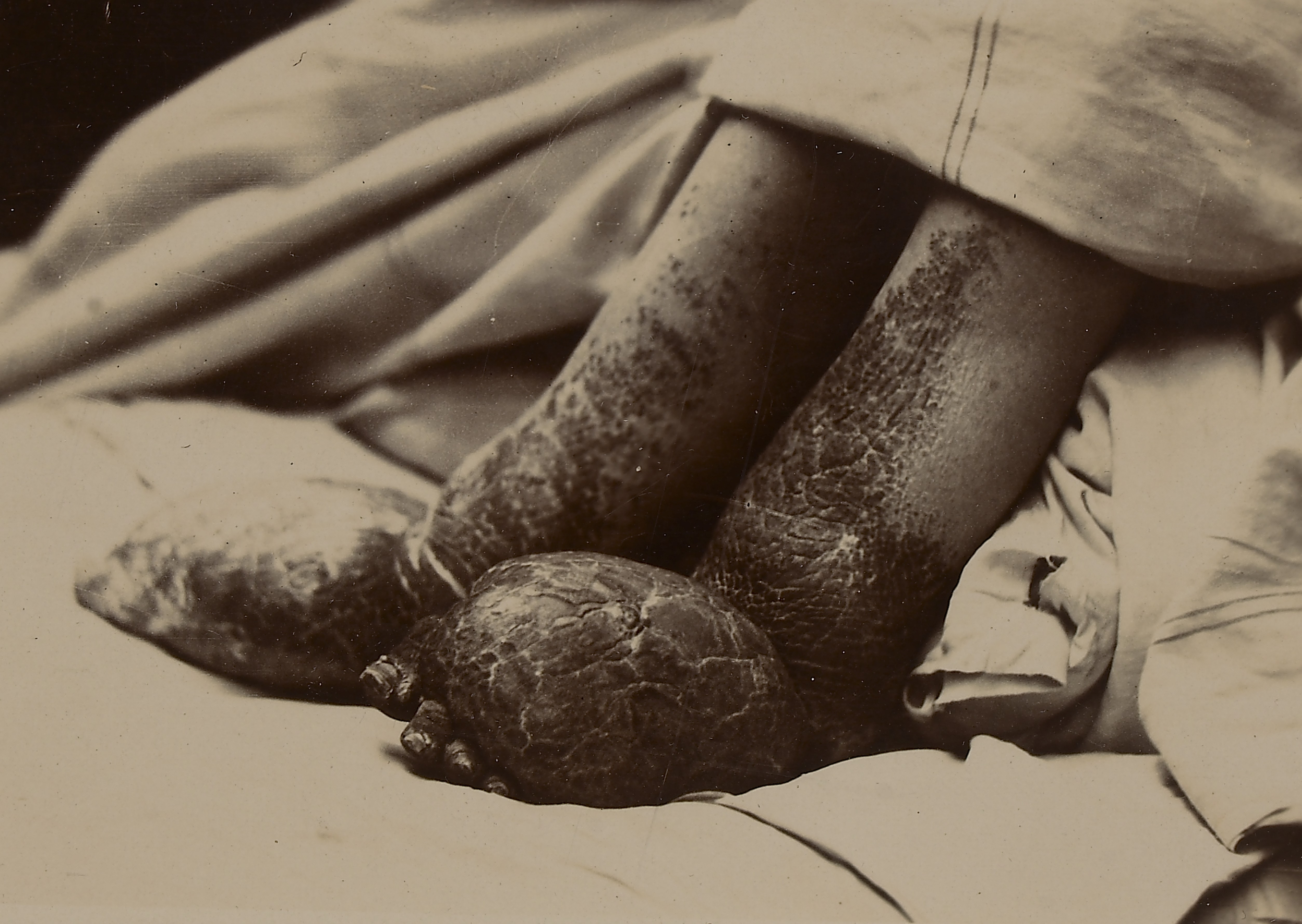 Black and white photograph showing the legs of a woman who appeared to be suffering from elephantiasis. Medical Photographic Library